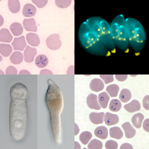 Composite image of various Apicomplexan parasites showing Babesia microti in red blood cells (top left), toxoplasma gondii (top right), a septate eugregarine (bottom left), Lankesteria cystodytae (bottom middle), and Plasmodium falciparum in red blood cells (bottom right).